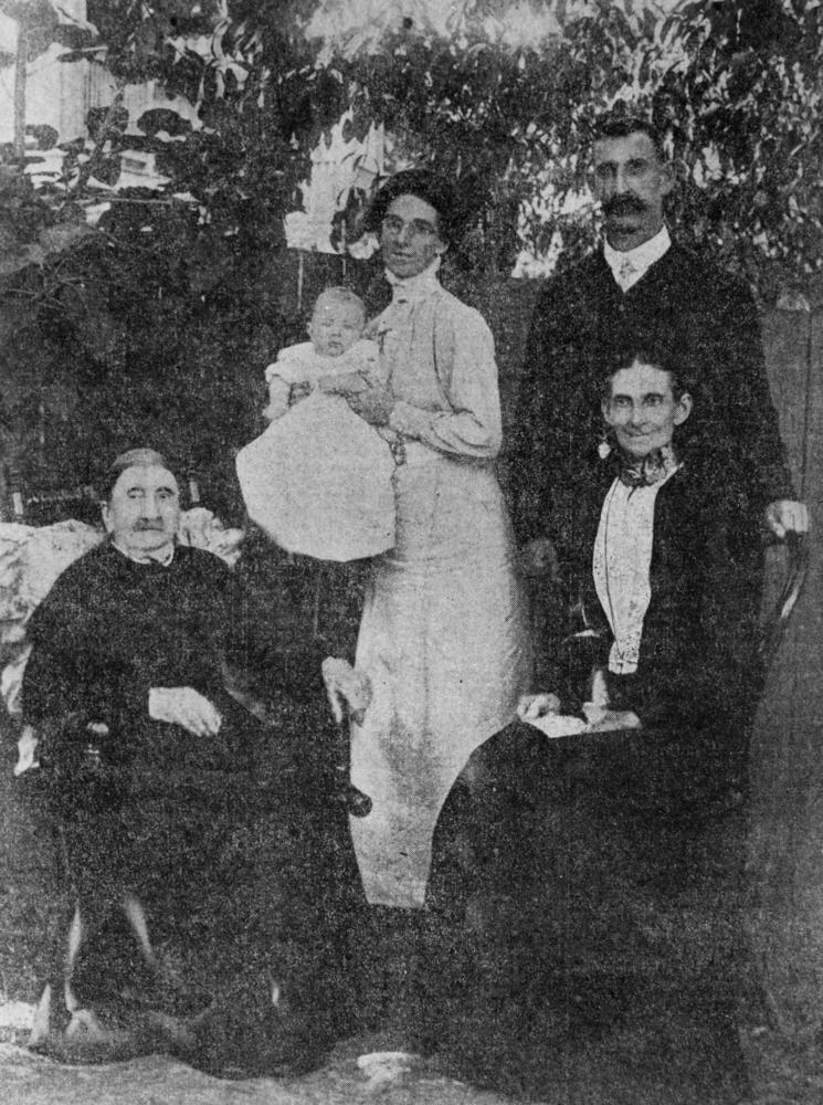 The Fifth Generation. In: The Brisbane Courier. Australia, 25 May 1912, p. 12 (online at .au): „Mrs. Elizabeth Ann Crouch, Great-great-grandmother, 93; Mrs. John Negus, Great-grandmother, 64; Mr. John Edward Negus, Grandfather, 45; Mrs. Young, Mother, and her Baby. The total number of Mrs. Crouch's descendants is nearly 200. – T. Mathewson photo.“